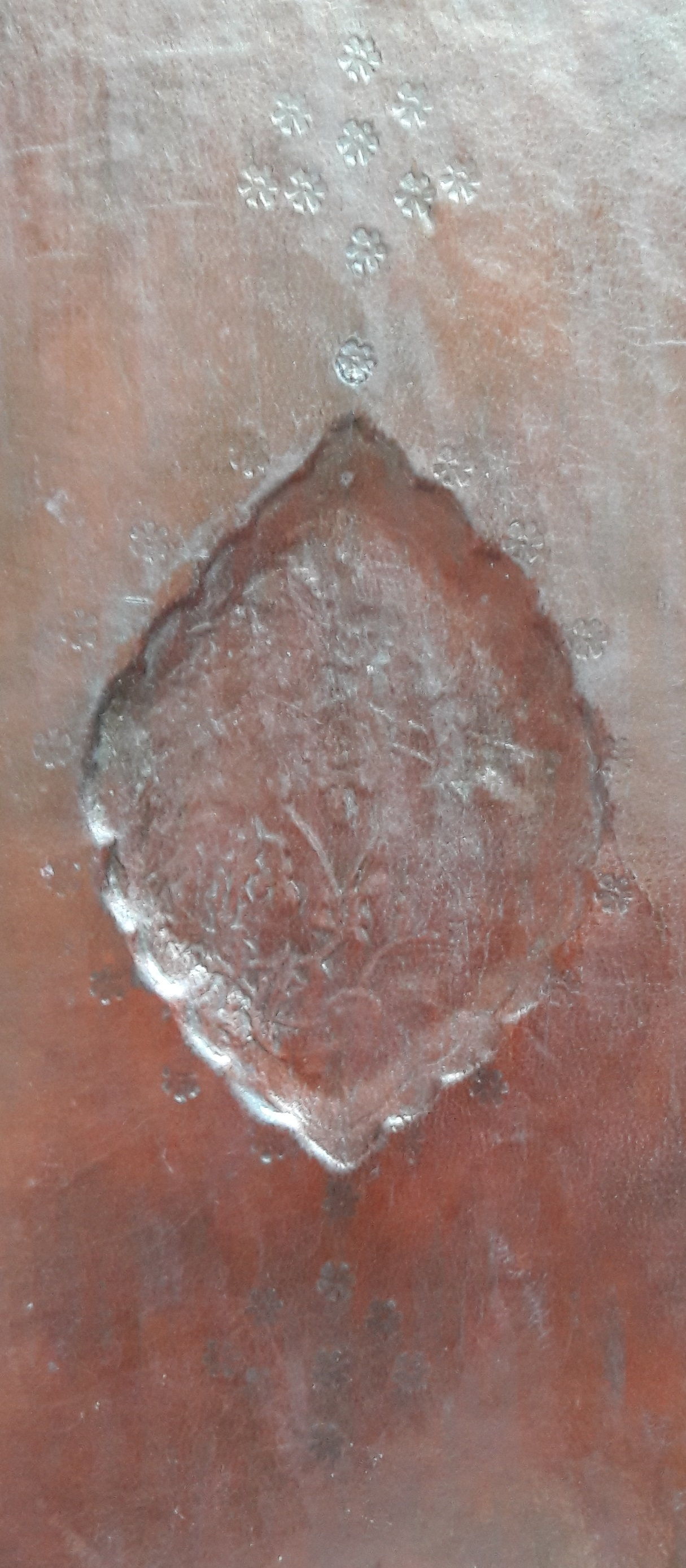 Kitap kapağından şemse detayı